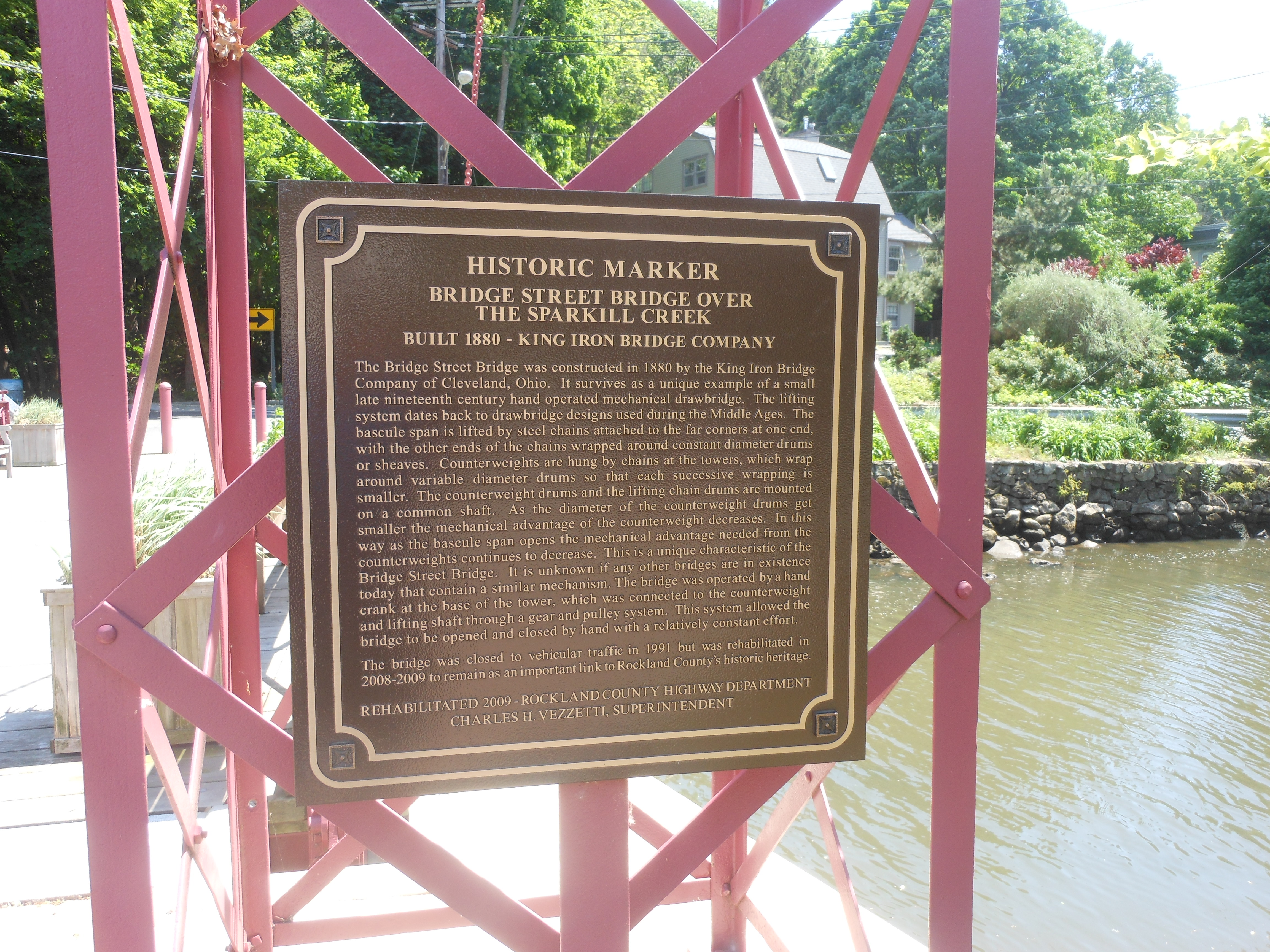 Sparkill Creek Drawbridge historic marker in Piermont, New York about the King Iron Bridge Company